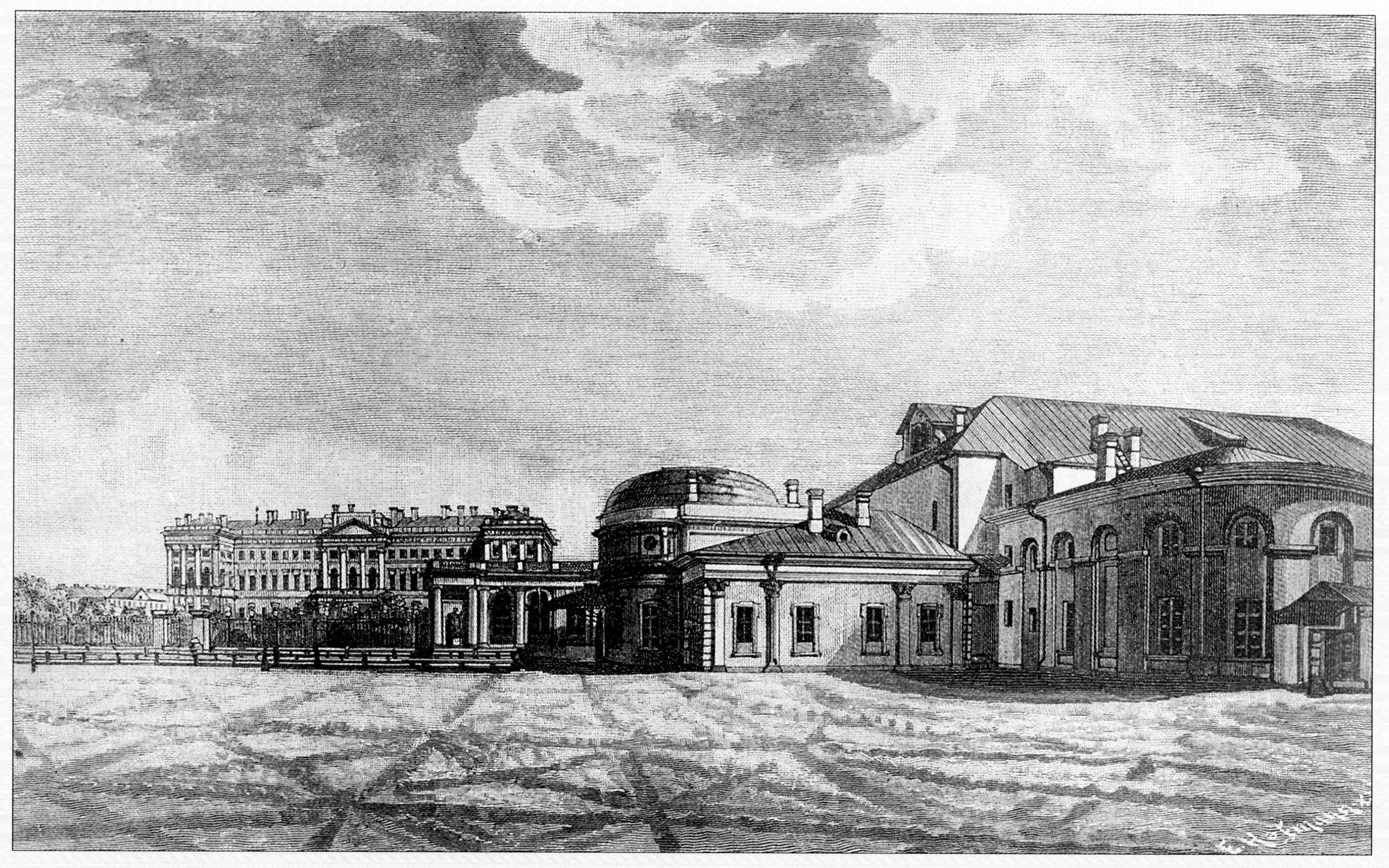 Cazassi (Maly) Theater in Saint Petersburg. In 1828-1832 Alexandrinsky (Novy, e.g. New) Theater was built on its place.